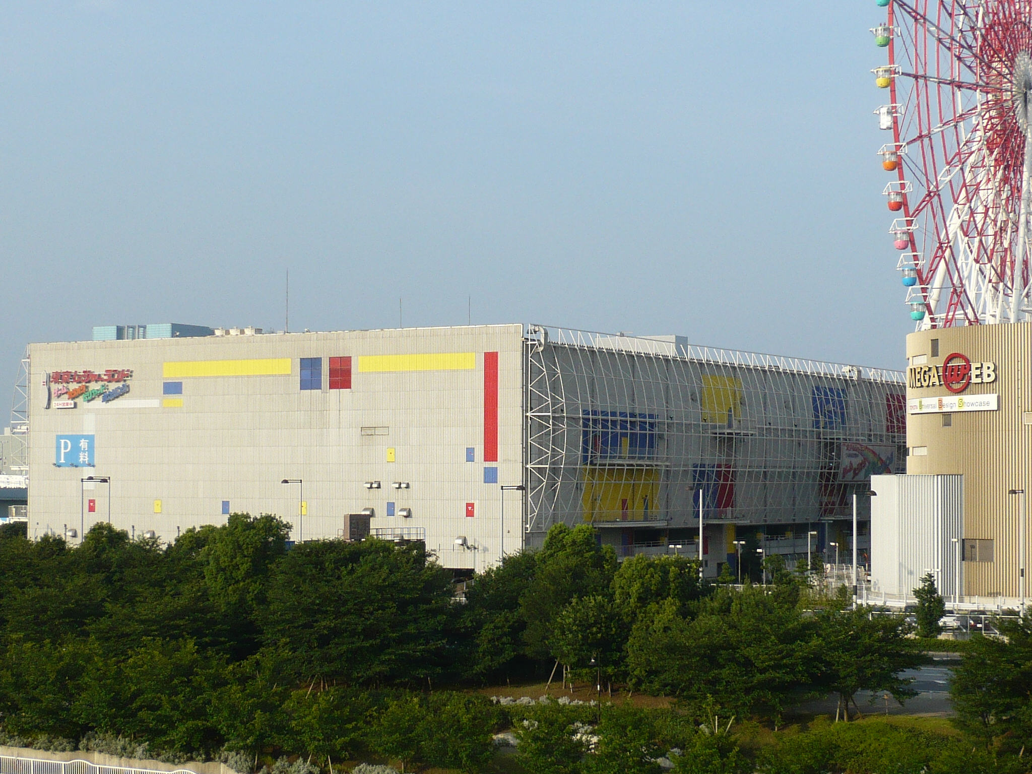 Tokyo Leisure Land(東京レジャーランドパレットタウン店) in Koto-ku,Tokyo,Japan.